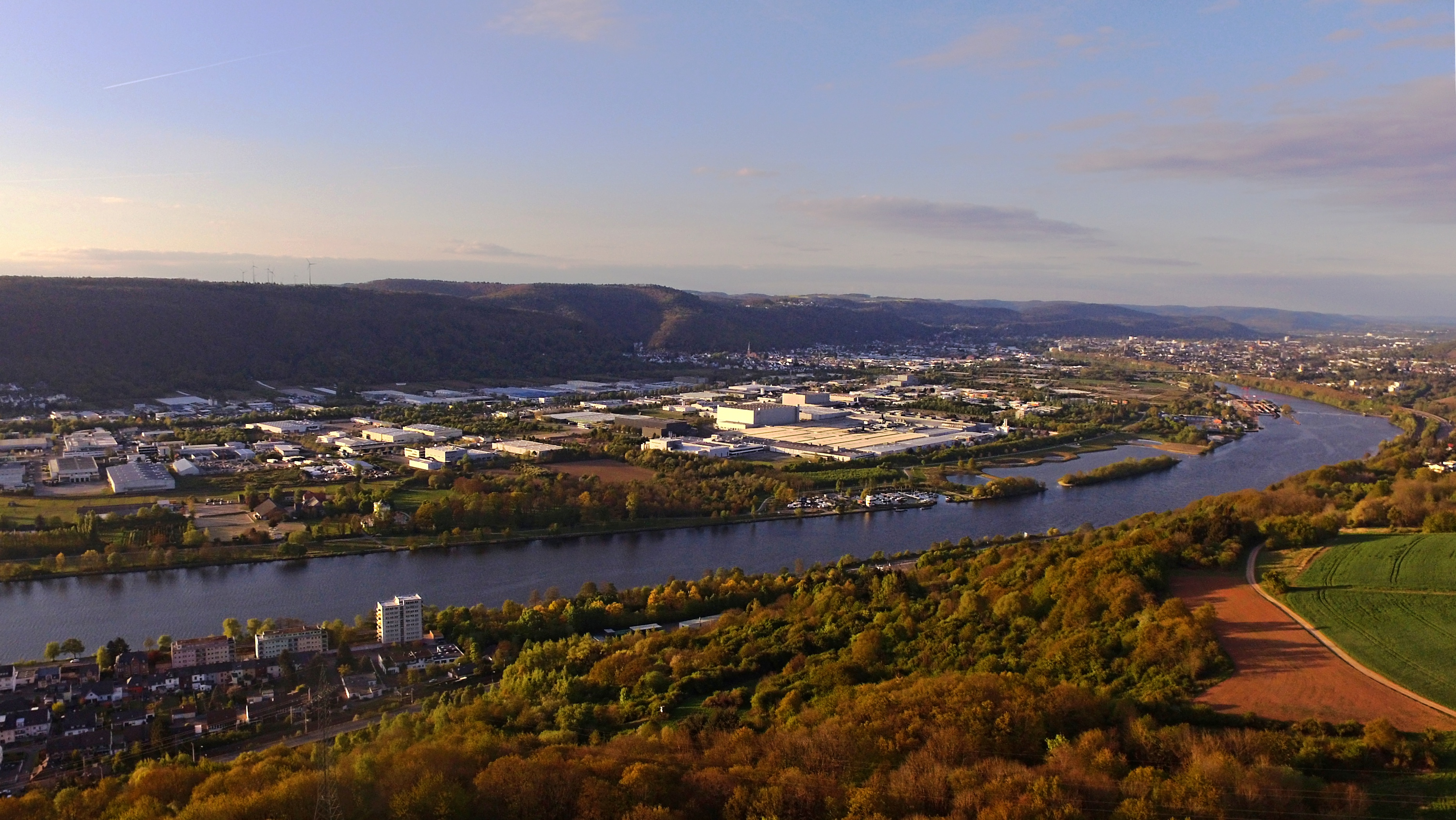 Industrial park Trier-Zewen (Rhineland-Palatinate, Germany). In the foreground Konz-Karthaus and the Moselle river.